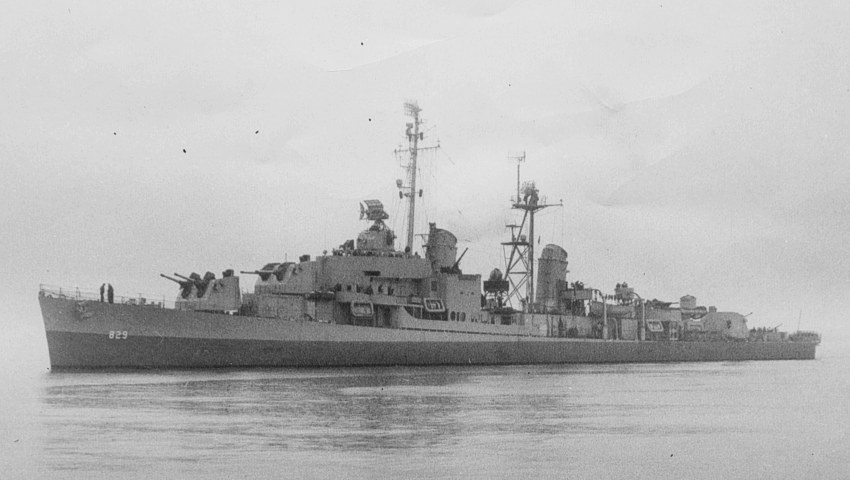 The U.S. Navy destroyer USS Myles C. Fox (DD-829) off of Boston, Massachusetts (USA), on 30 April 1945.